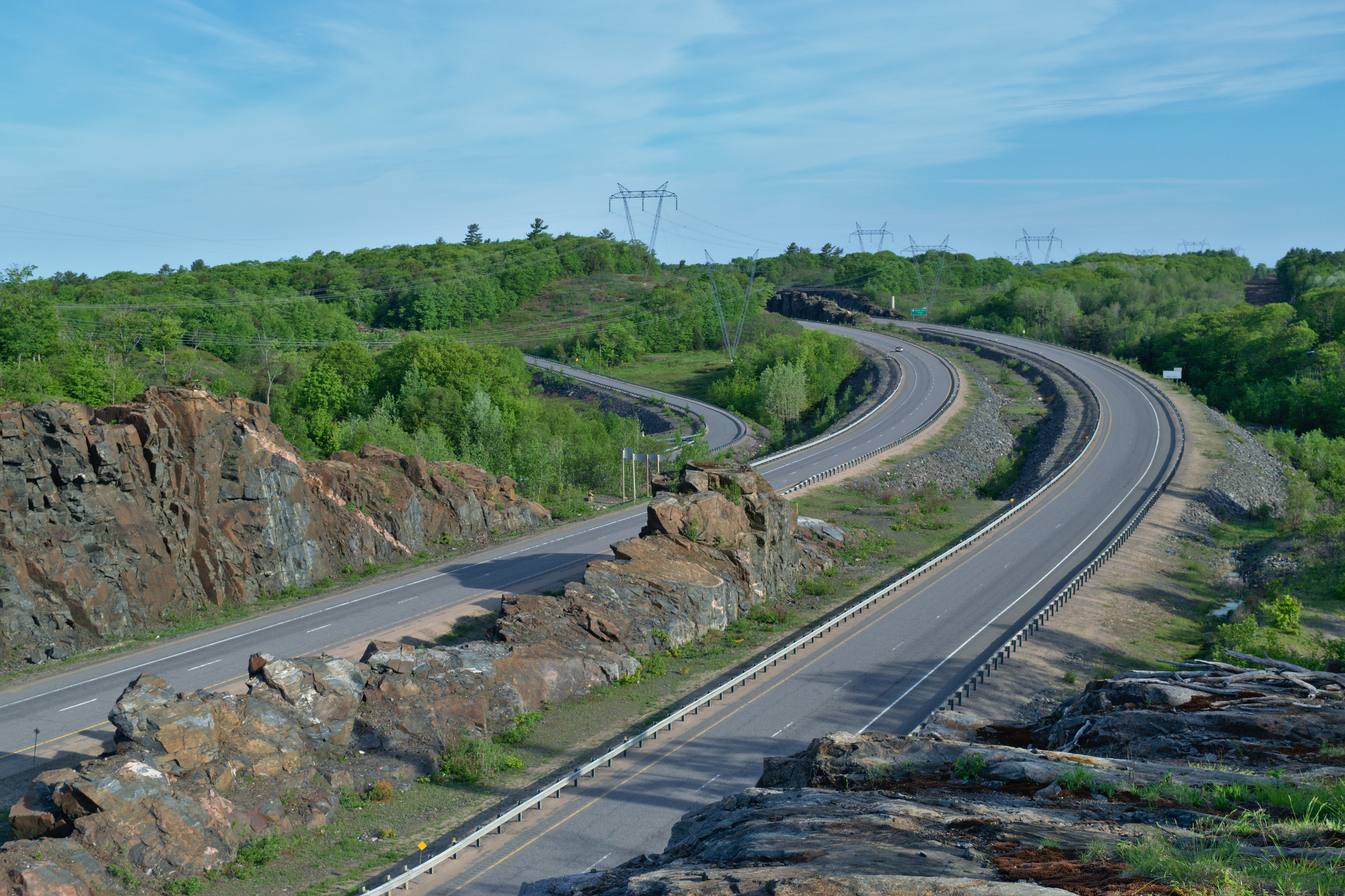 Highway 400 in Seguin.